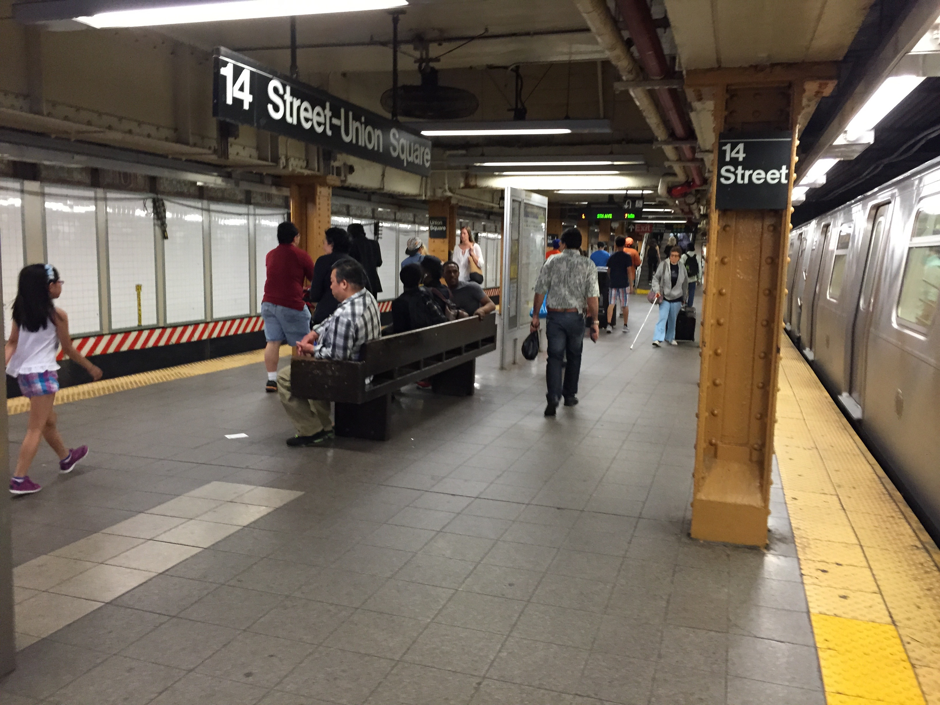 L platform at the 14th St-Union Square station.